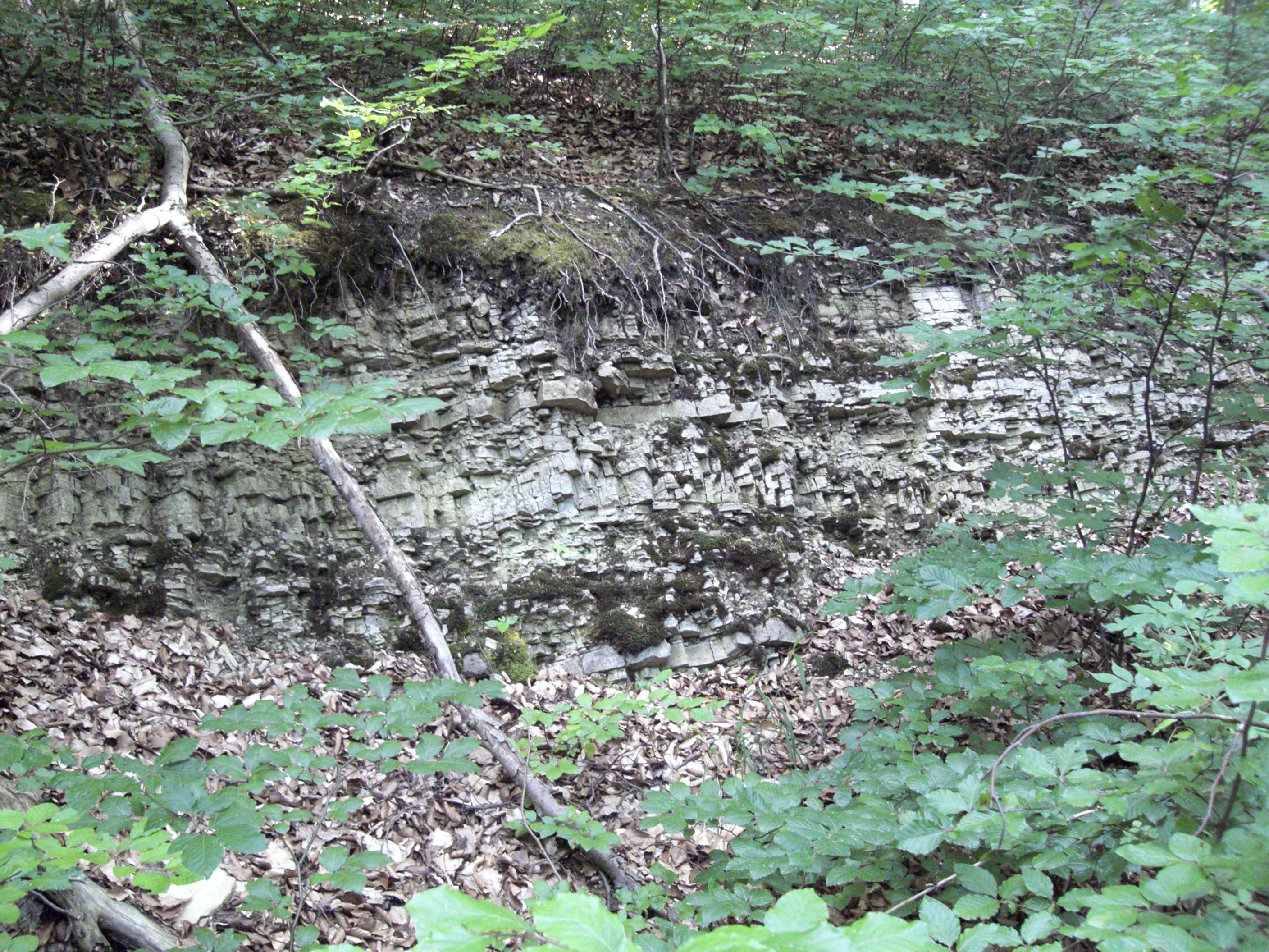 Muschelkalk, Huy, Saxony-Anhalt, Germany